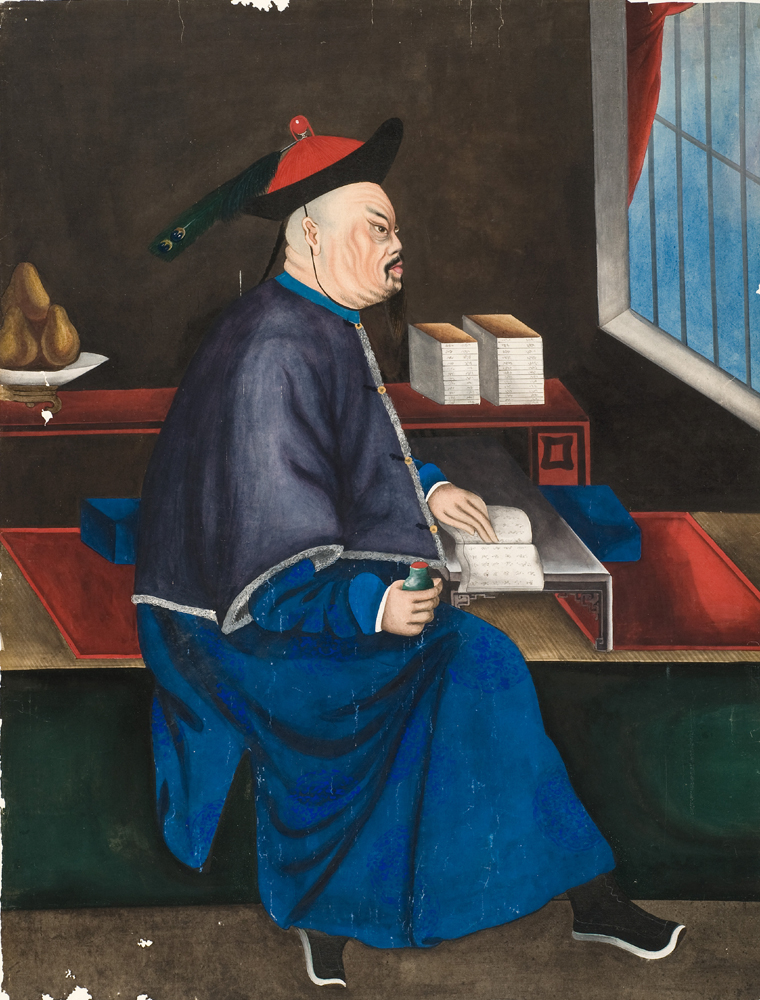 Portrait of Ye Mingchen, painted in a Chinese artist's studio in Canton